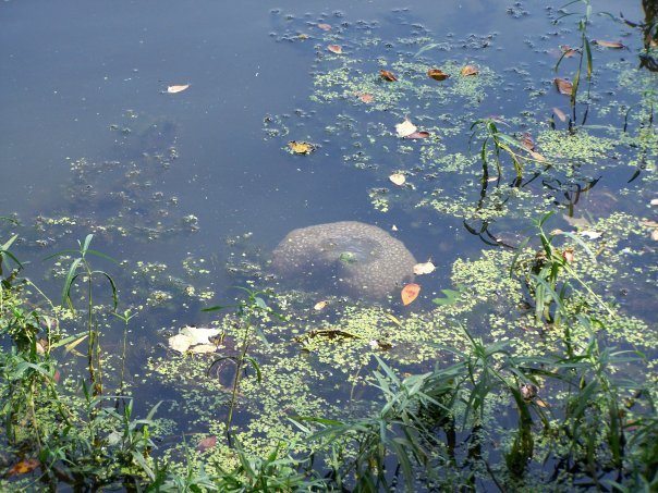 A colony of phylactolaemata bryozoans at Mingo National Wildlife Refuge, Puxico, Missouri, USA